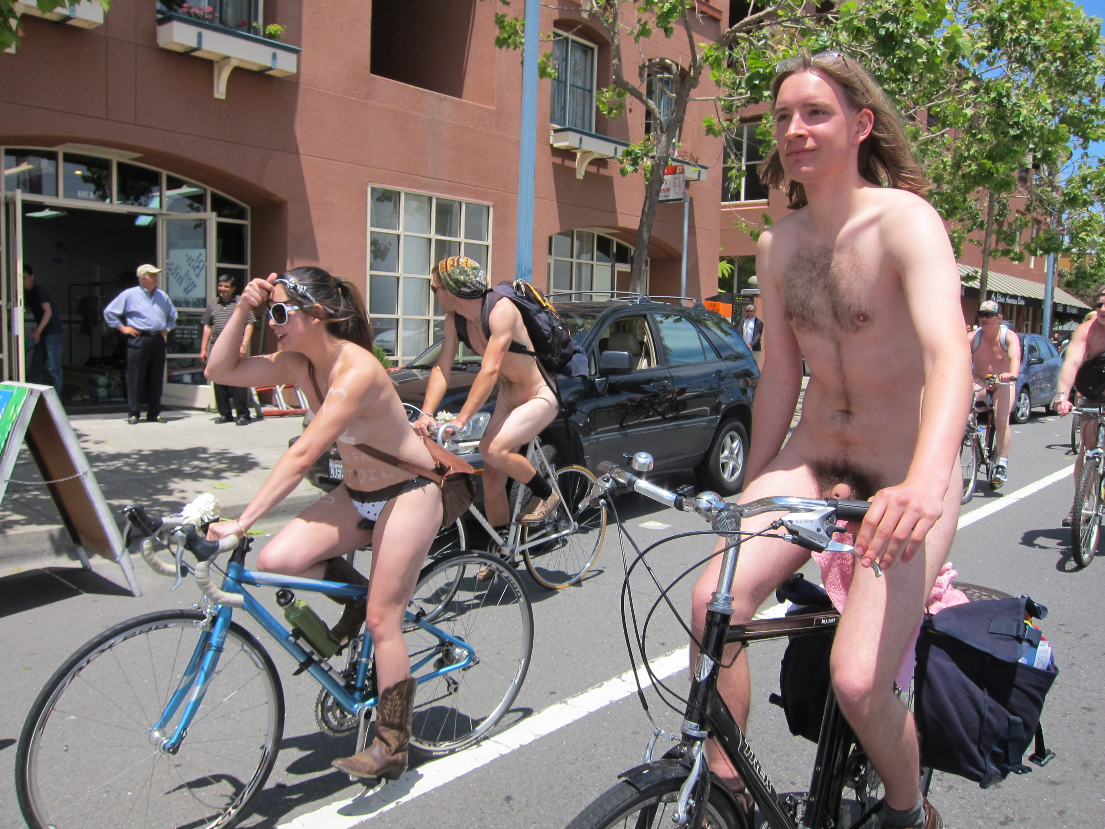 World Naked Bike Ride, 2011, San Francisco